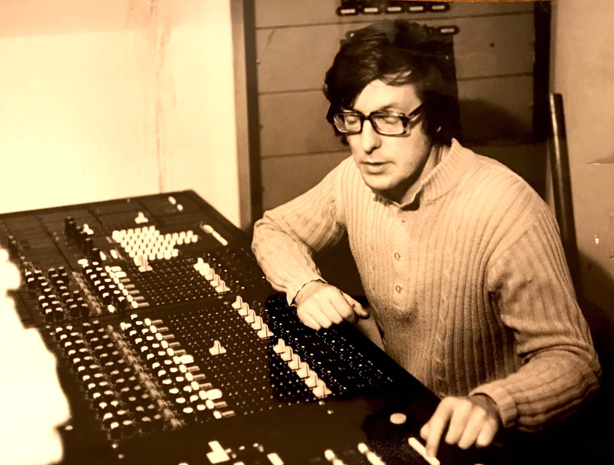 Ing. Zdeněk Hrubý v dabingovém studiu Československé televize, 1978